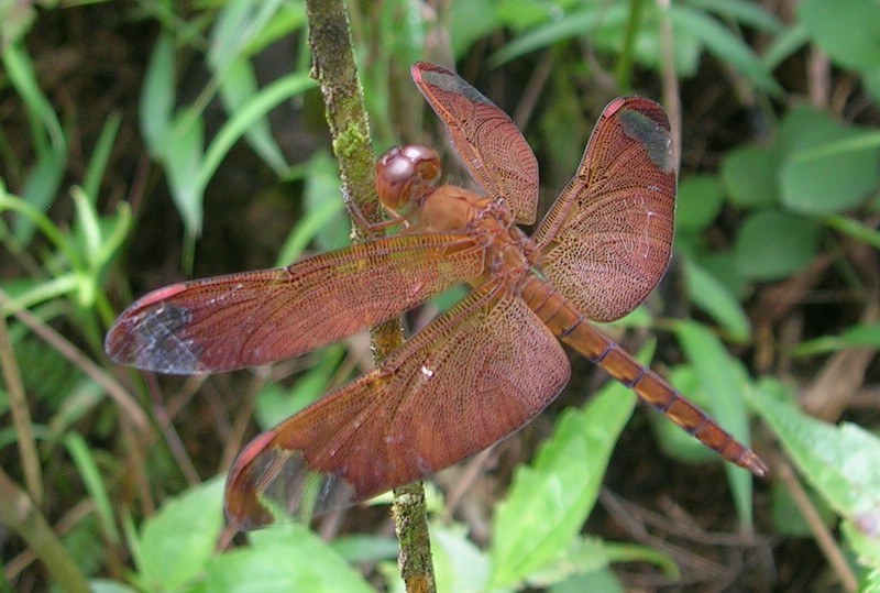 Neurothemis fulvia (female) dragonfly found at Talakaveri, Coorg